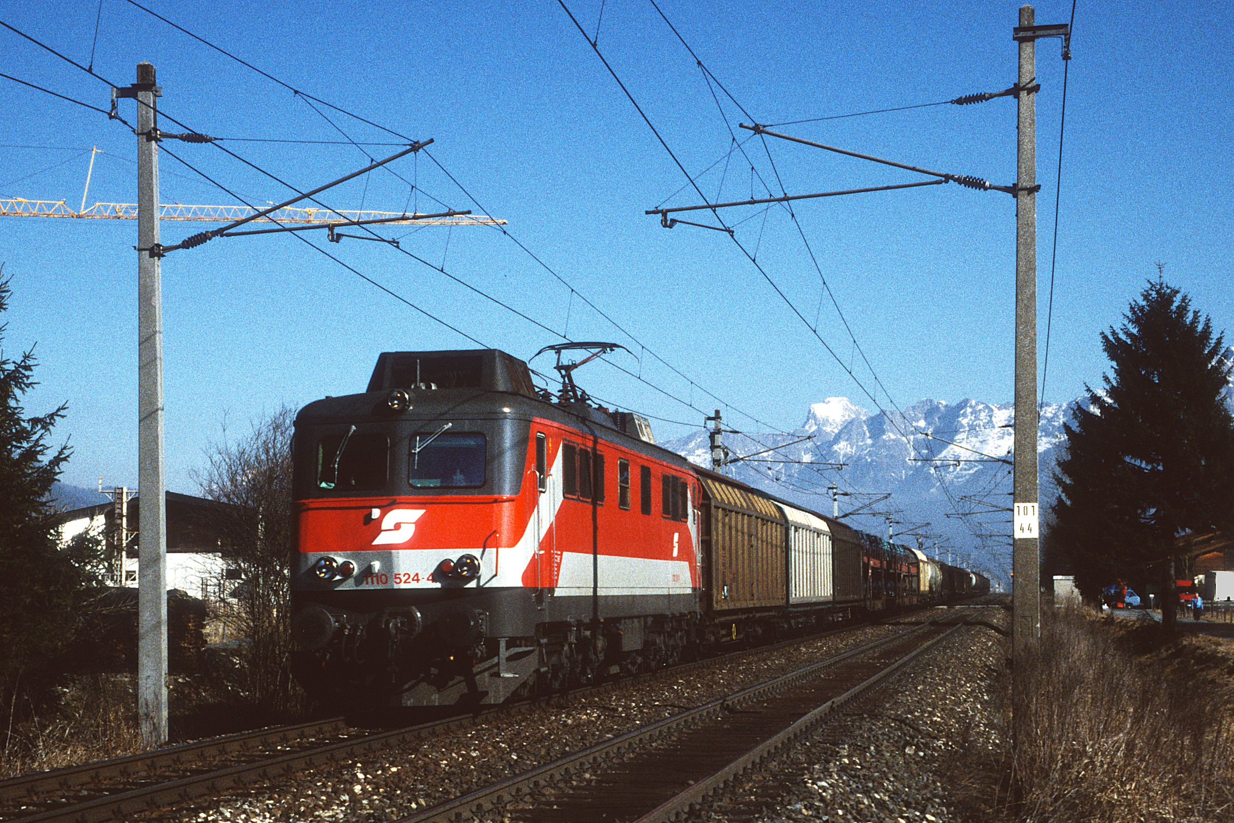 ÖBB 1110 524-4 with freight train near Zell am See